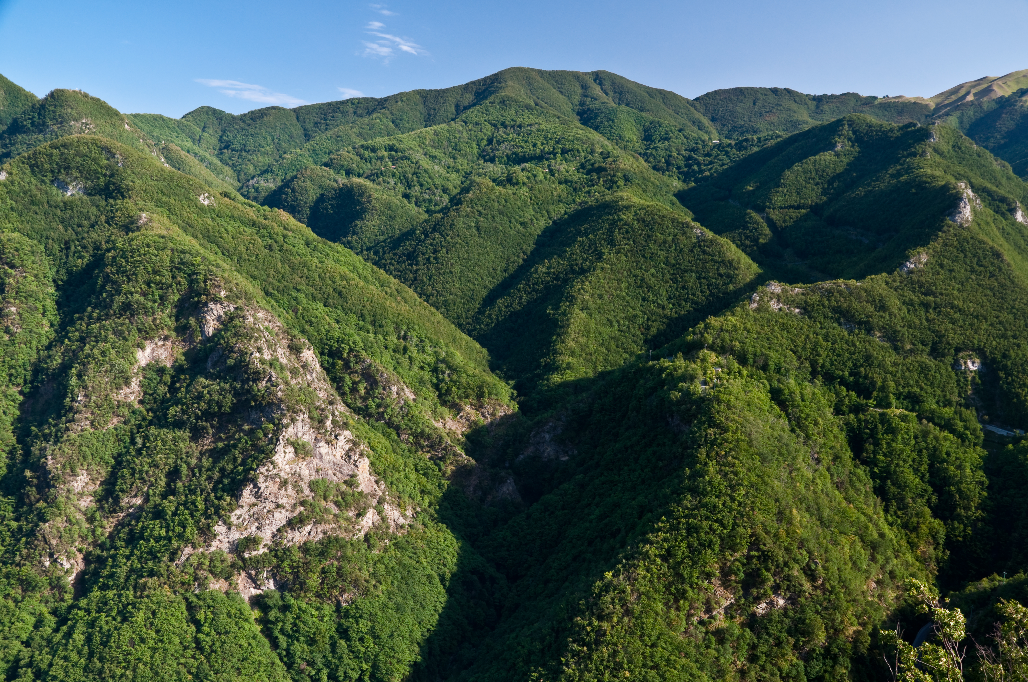 View of the valley of Fornovolasco in the Garfagnana